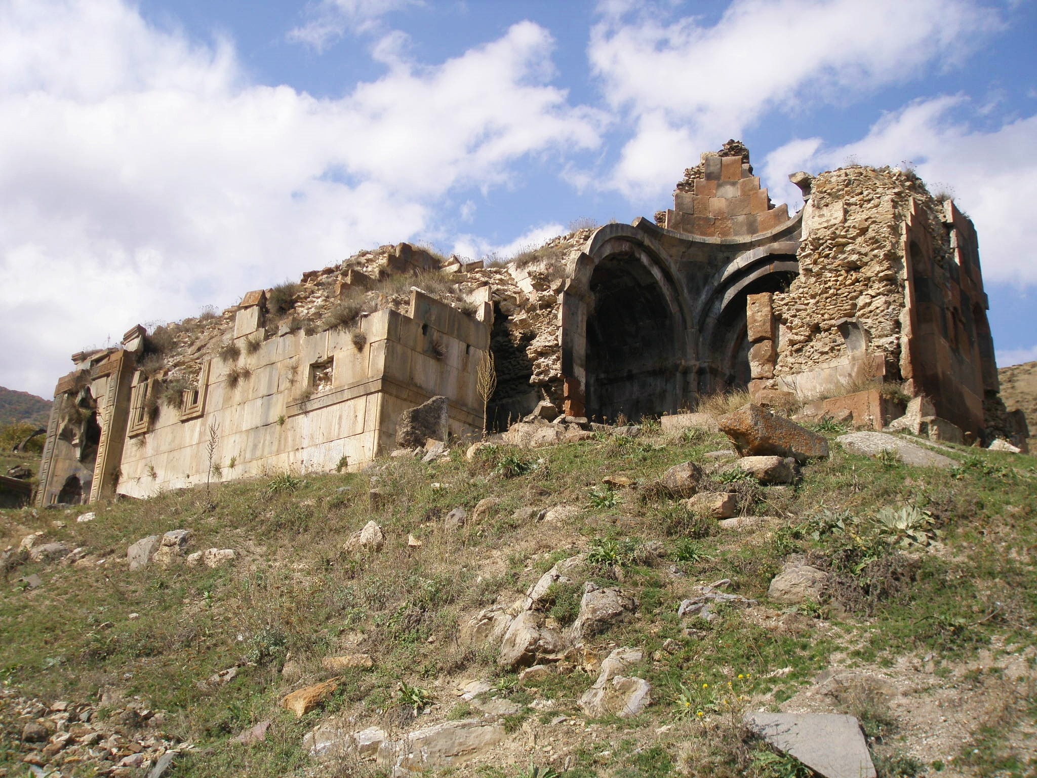 Southeast view of S. Astvatsatsin Church at Neghutsi Vank, 10th-11th c. Arzakan, Kotayk Province, Armenia.